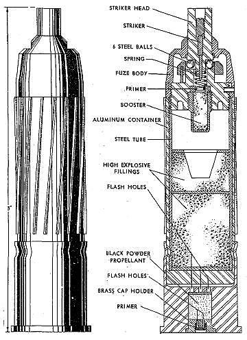 Sprengpatrone fur Kampfpistole